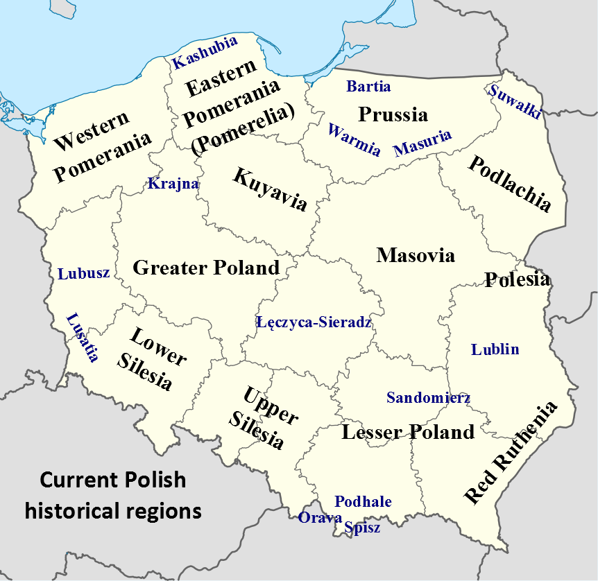 Poland historical regions en